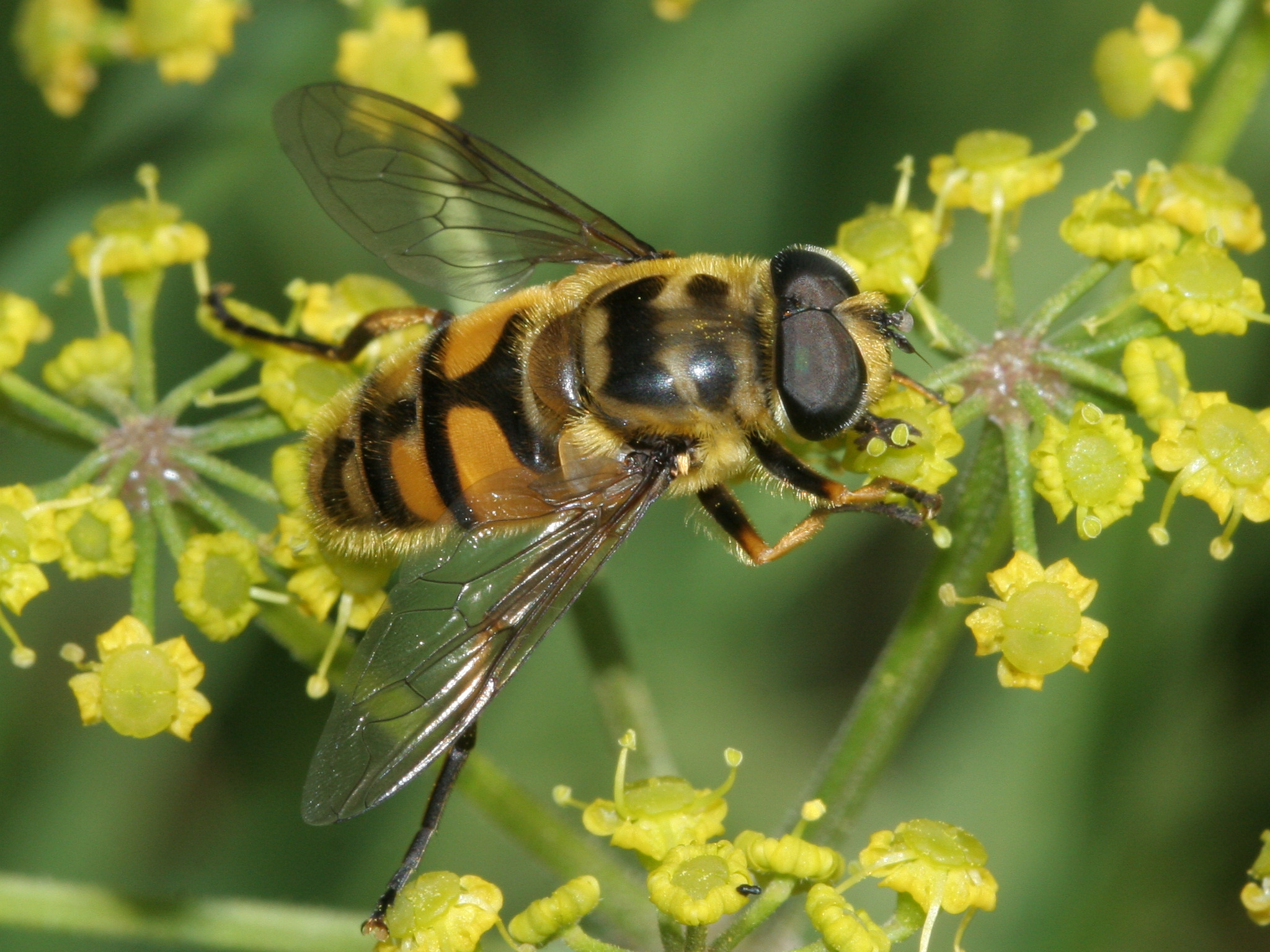 Myathropa florea (syrphe tête de mort).